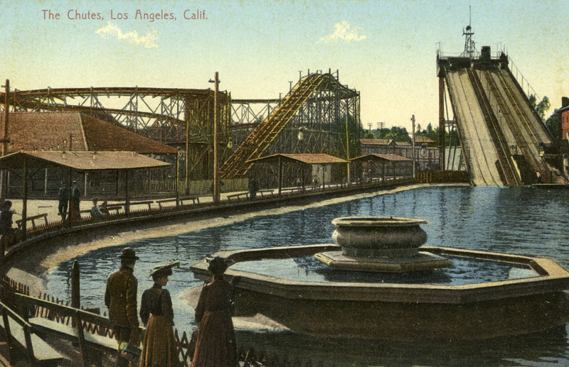 Color postcard of a water ride called "The Chutes."